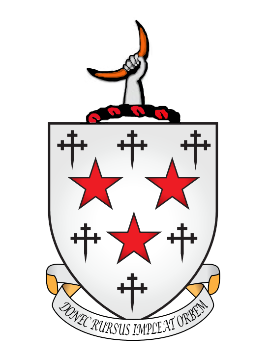 Coat of arms of Somerville College, Oxford, with crest. Argent, three mullets in chevron reversed gules, between six crosses crosslet fitched sable. Crest is a hand grasping a crescent.